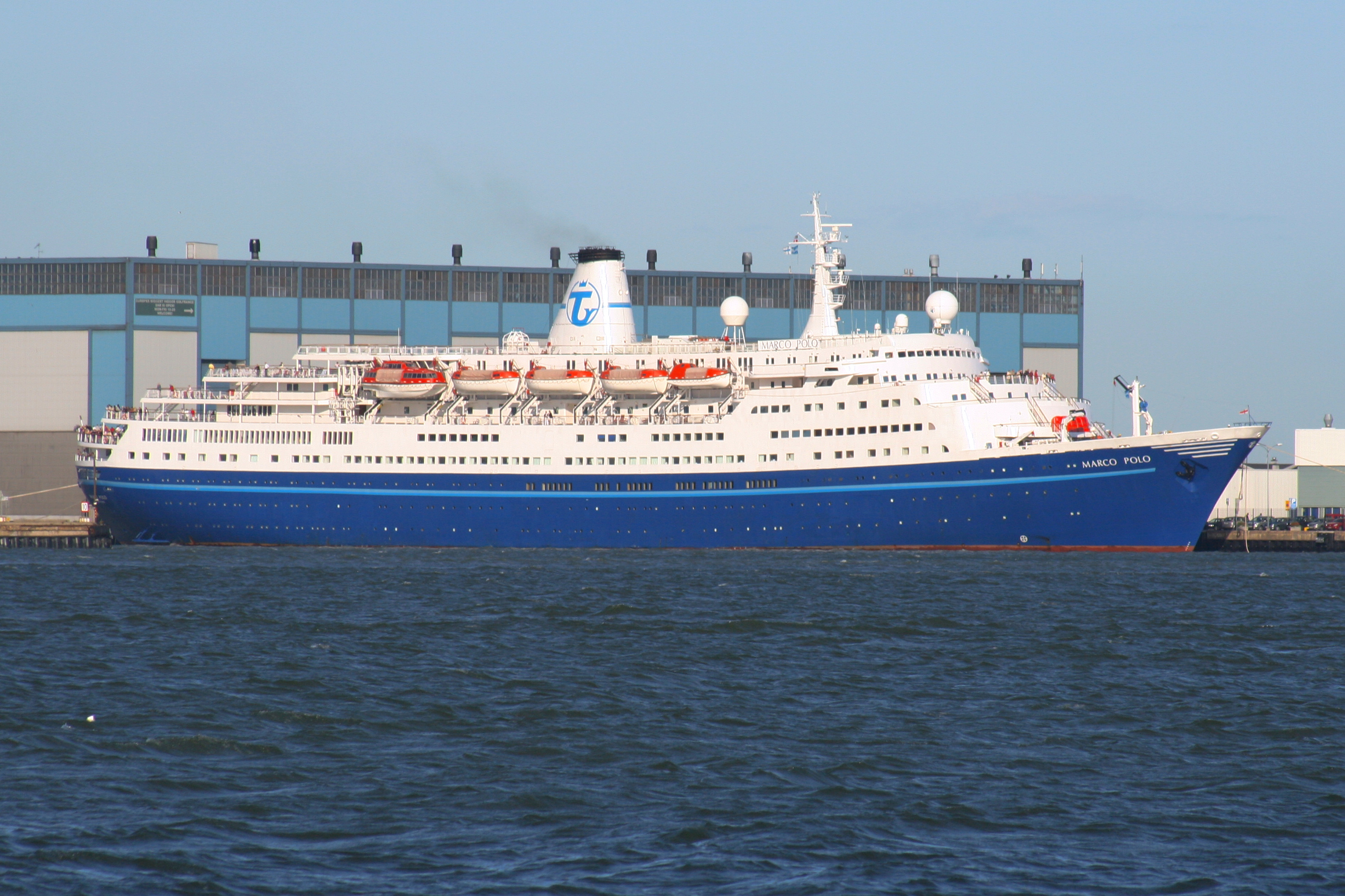 Transocean Tours cruise ship MS Marco Polo in Helsinki West Harbour.